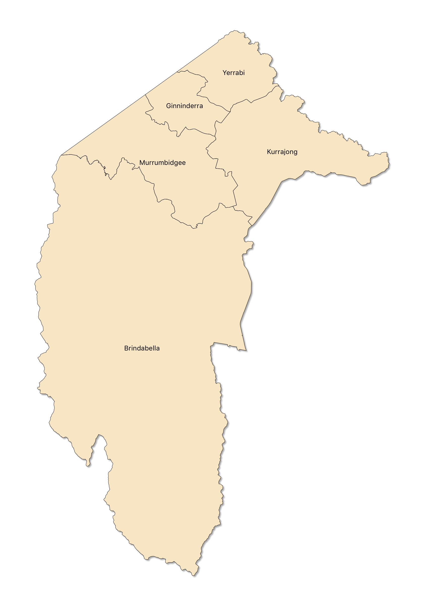 Electorates of the Australian Capital Territory to be used for the 2016 election. Incorporates or developed using G-NAF ©PSMA Australia Limited licensed by the Commonwealth of Australia under the Open Geo-coded National Address File (G-NAF) End User Licence Agreement.